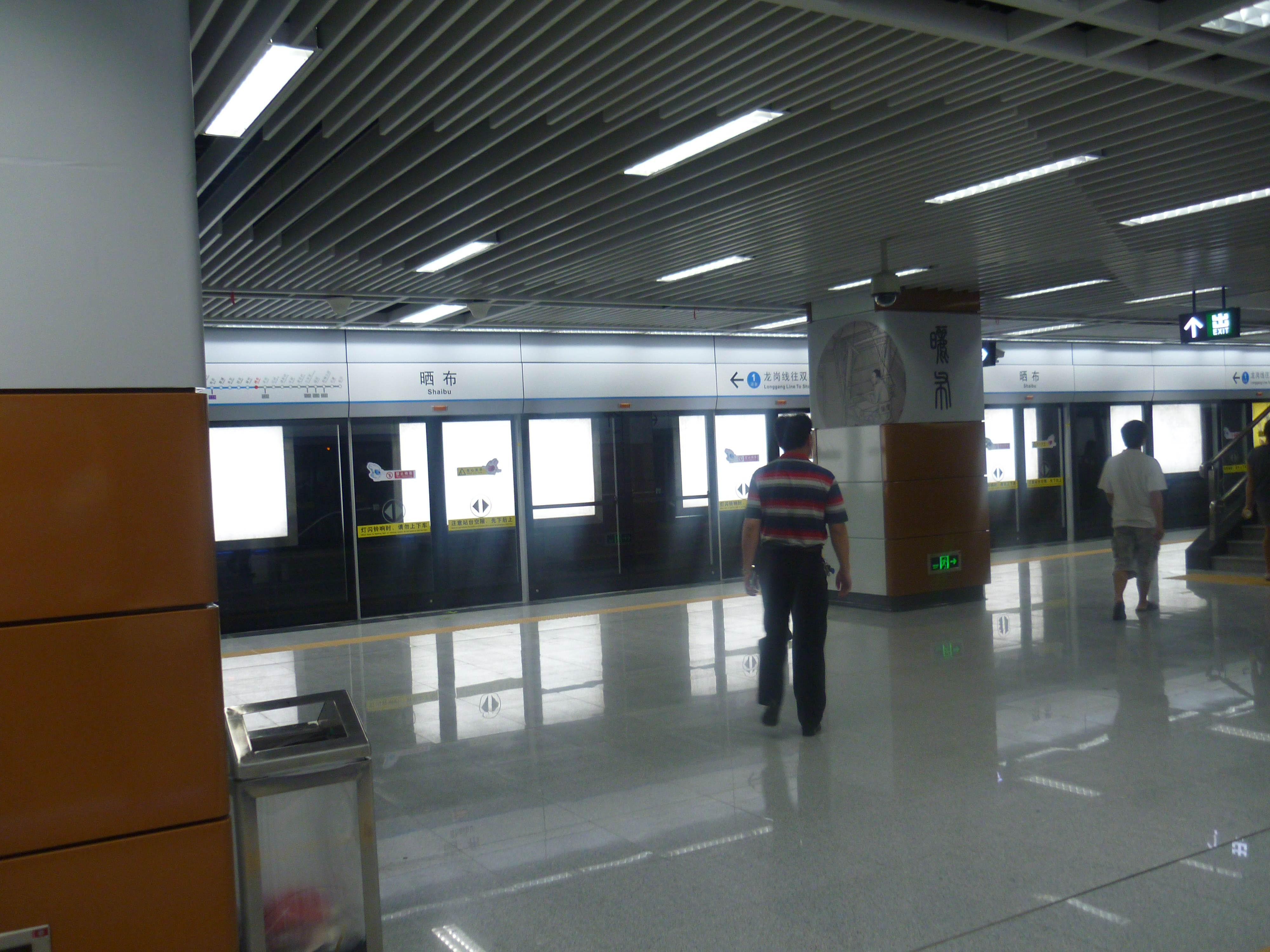 Platform of Shai Bu Station.